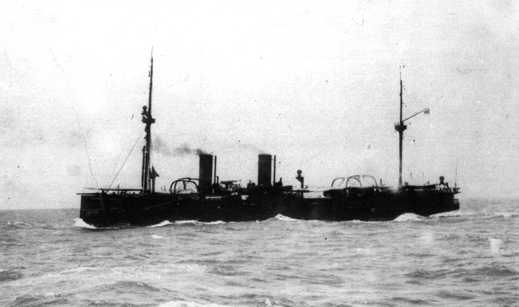 The Imperial Russian cruiser I rank Vladimir Monomakh.